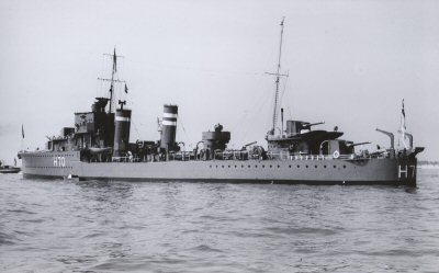 HMCS Saskatchewan (H70), Canadian River-class destroyer. She was originally British F class destroyer HMS Fortune.